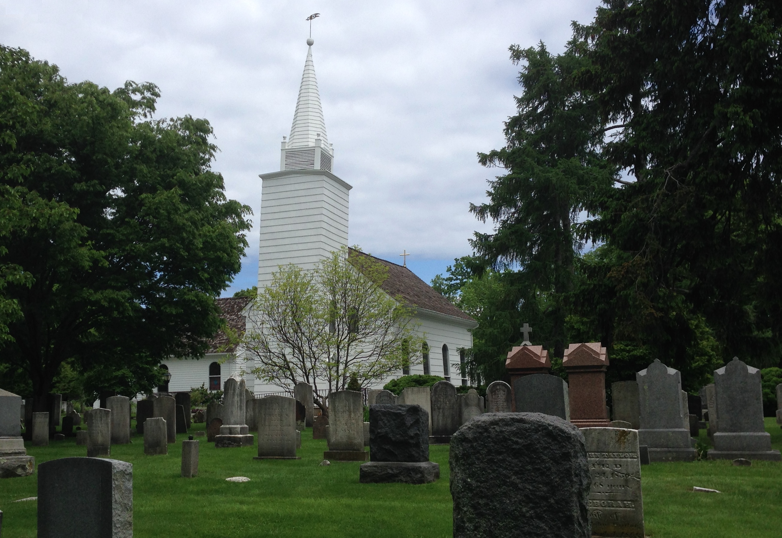 The Caroline Church of Brookhaven, in Setauket, NY. The building dates to 1729.